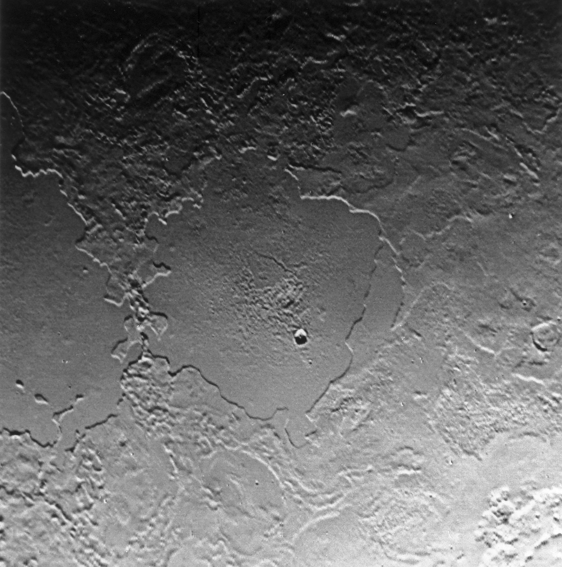 NASA's original caption: "Part of the complex geologic history of icy Triton, Neptune's largest satellite, is shown in this Voyager 2 photo, which has a resolution of 900 meters (2,700 feet) per picture element. The photo was received as part of a Triton-mapping sequence between 3:30 and 5:30 a.m. (PDT). This view is about 500 kilometers (300 miles) across. It encompasses two depressions, possibly old impact basins, that have been extensively modified by flooding, melting, faulting, and collapse. Several episodes of filling and partial removal of material appear to have occurred. The rough area in the middle of the bottom depression probably marks the most recent eruption of material. Only a few impact craters dot the area, which shows the dominance of internally driven geologic processes on Triton." The image shows two of Triton's cryovolcanic "walled plains", Tuonela Planitia (left) and Ruach Planitia (center). It should be noted that this NASA image is inconsistent with maps of Triton and other NASA images, such as 1 and 2, and thus must be incorrectly portrayed (reversed in the vertical dimension).